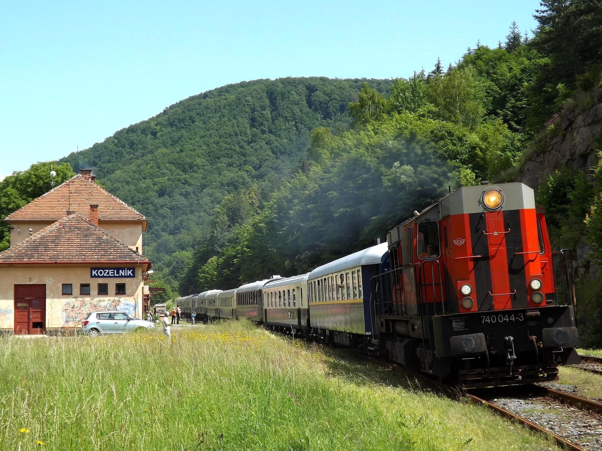 Station Kozelník